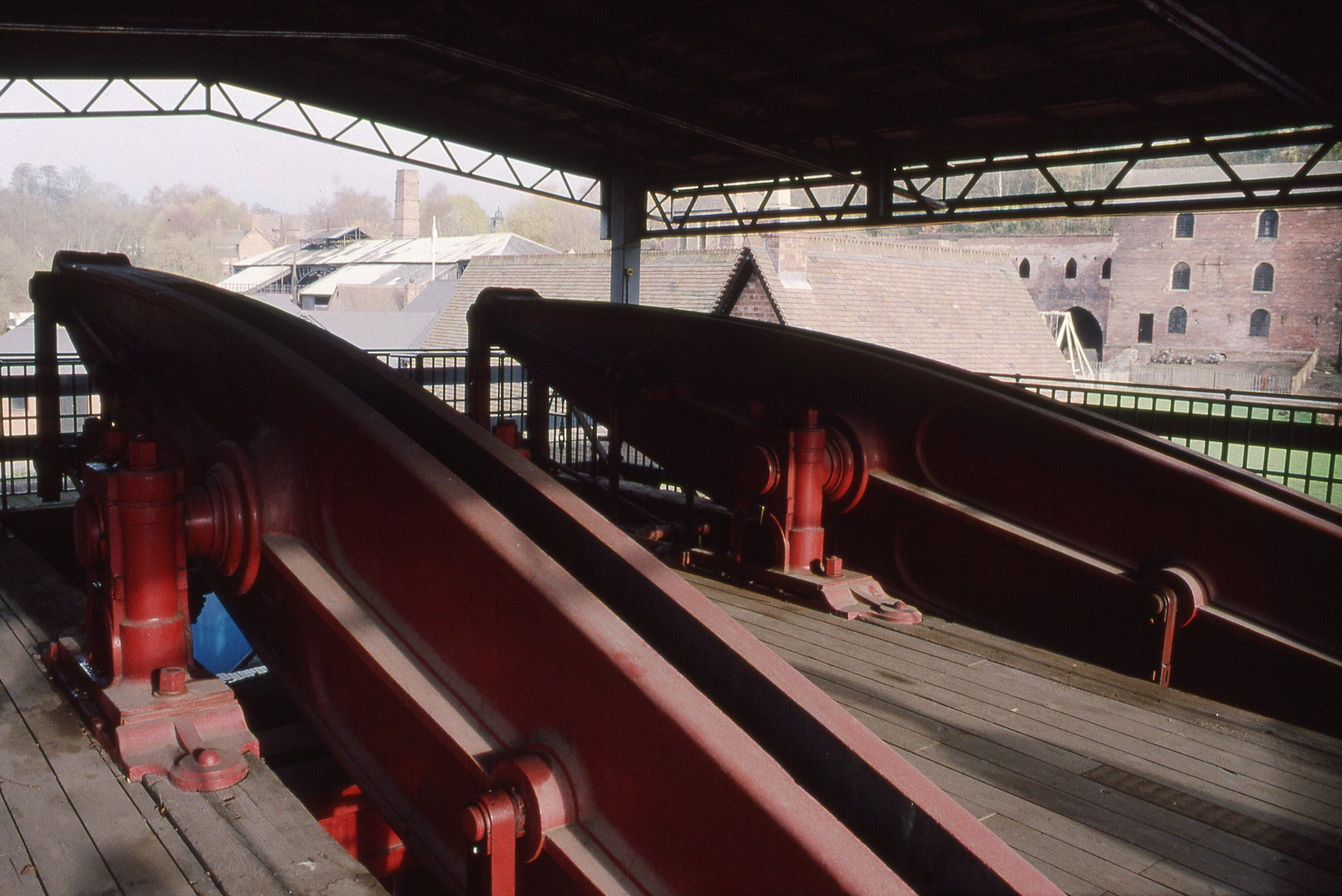 David and Sampson are beam engines that blew air into the Lilleshall Company's blast furnaces at Priorslee. Built in 1851 by Murdock Aitken and Company of Glasgow they were in regular use until 1900 and standby engines until 1952. They were moved to the Museum and reconstructed in 1971. The Lilleshall Company was the largest industrial concern in the northern half of the East Shropshire Coalfield for over 150 years, and once had extensive iron and steel works, engineering works, coalmines, brickworks and a private railway network in and around the Oakengates, St. George’s and Donnington Wood areas. [